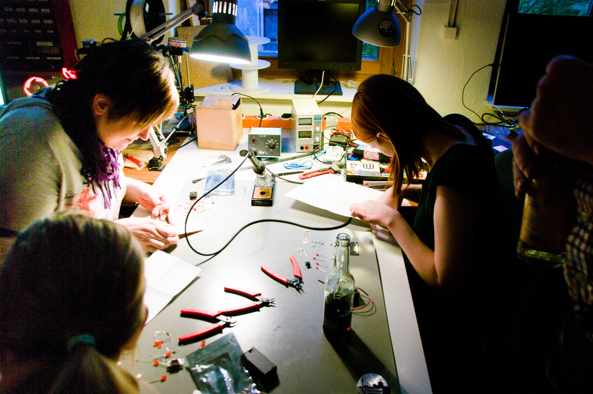 Solder workshop Chaostreff Dortmund Dortmund May-2014